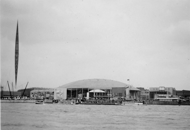 Festival of Britain. View across the Thames of the exhibition buildings for the 1951 Festival of Britain which were sited next to County Hall.